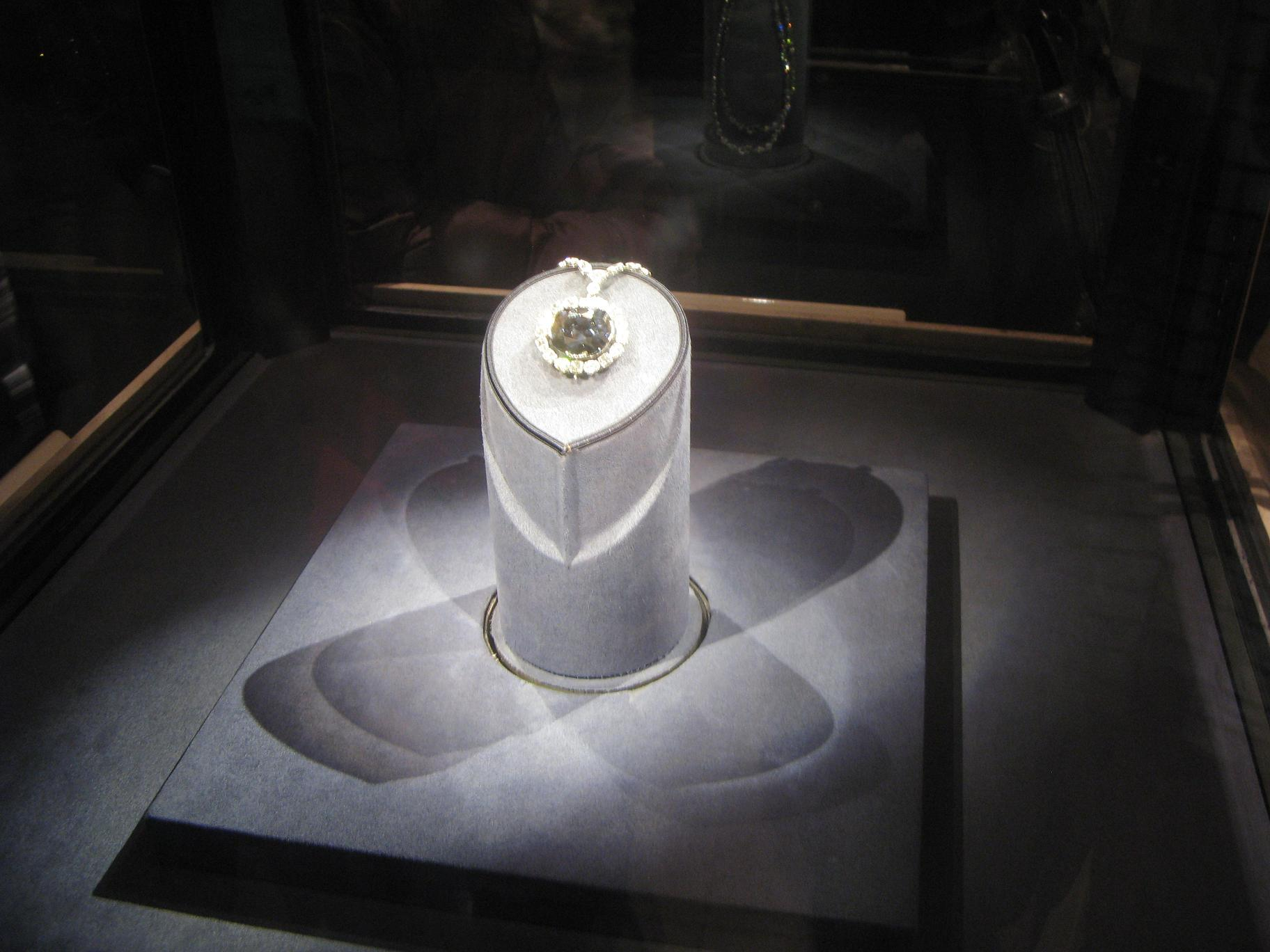 The Hope Diamond photographed by Brian Muhlenkamp